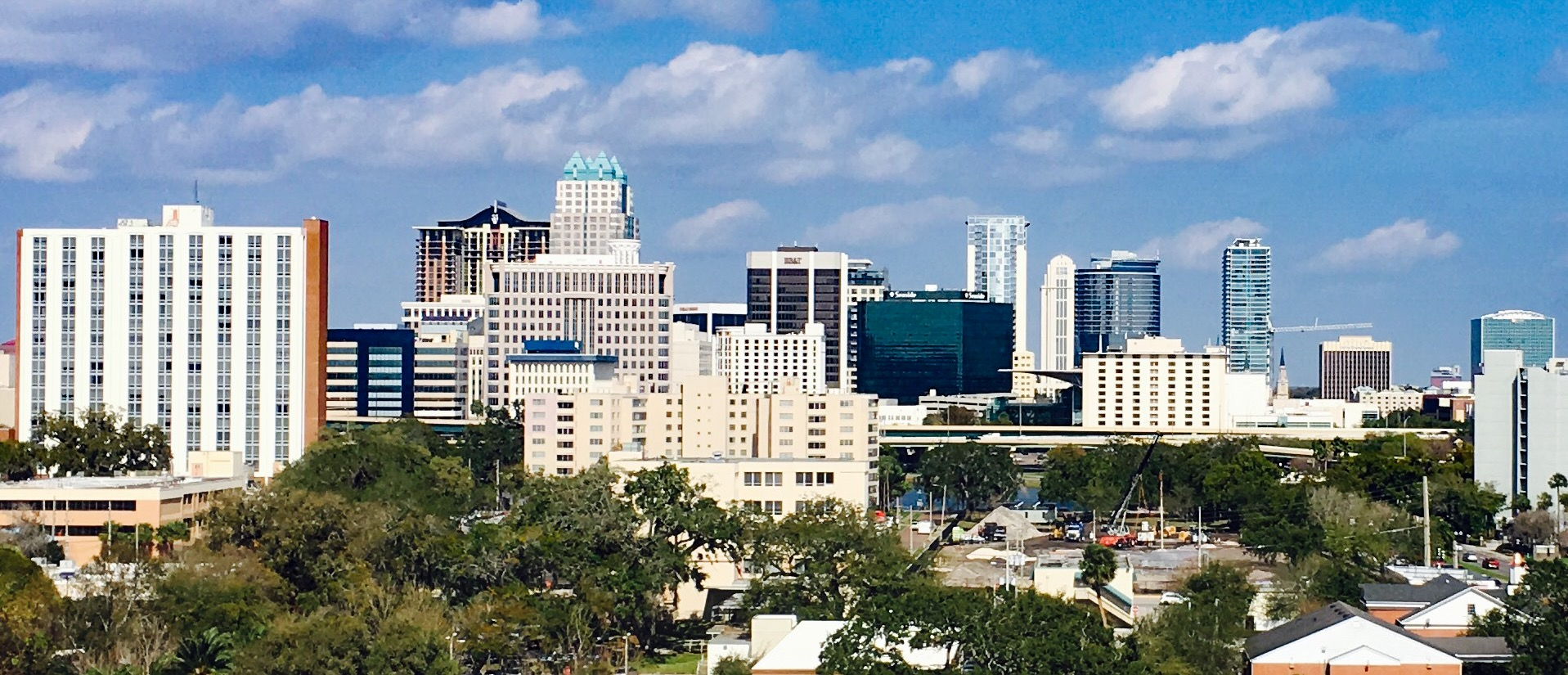 Skyline of Orlando, FL looking north.